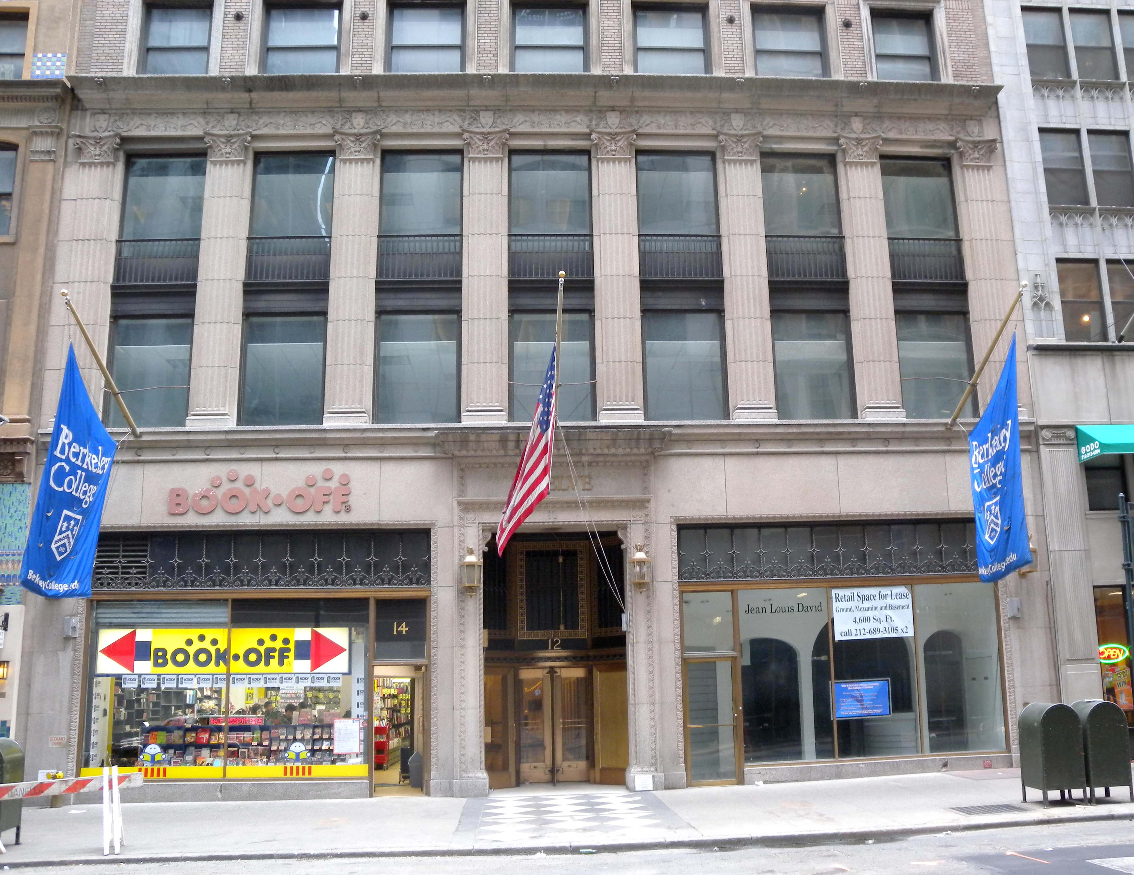 Looking south across East 41st Street at building of Berkeley College.